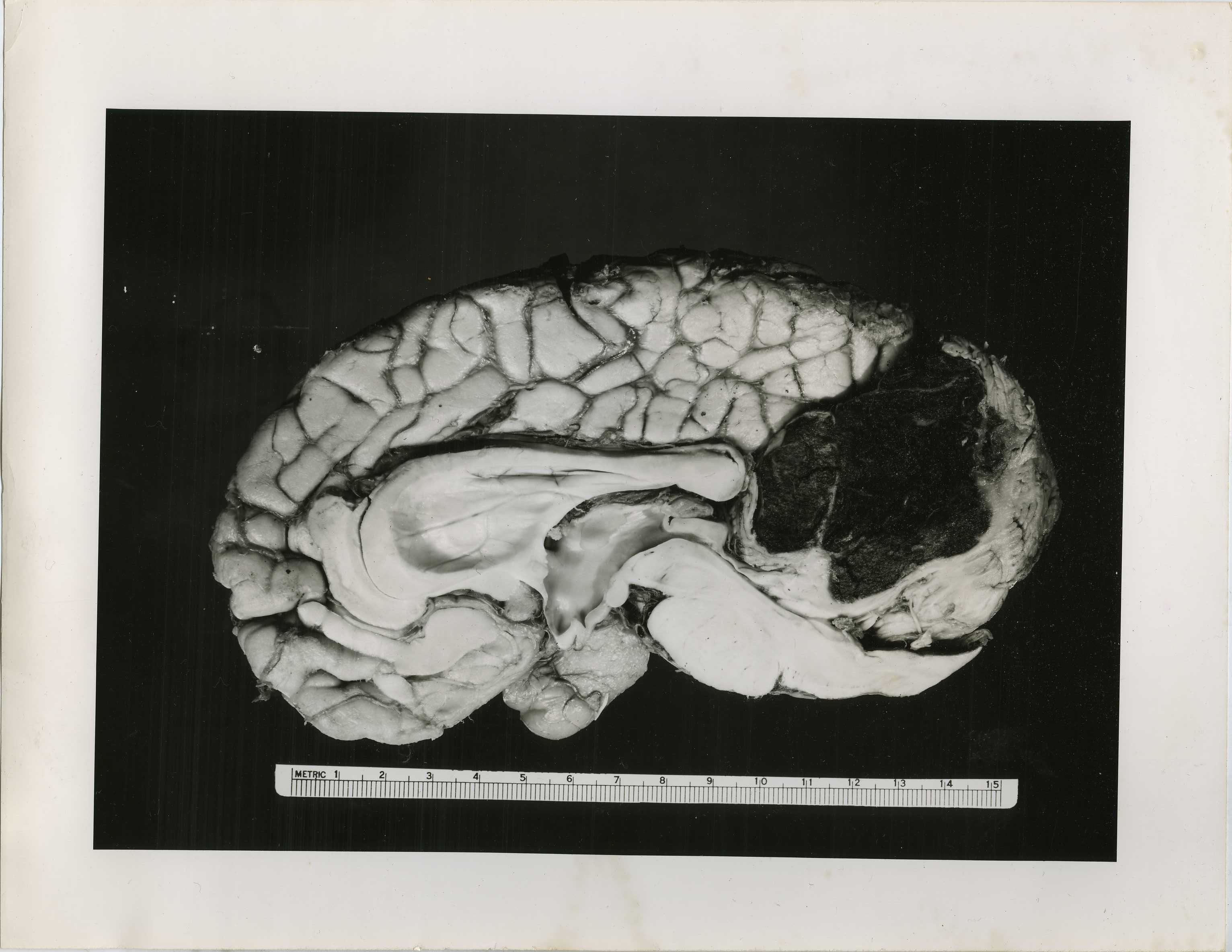 Melanoma. Brain. [Gross specimen.]